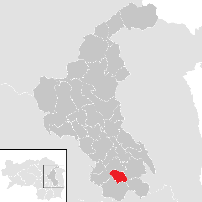 district Weiz